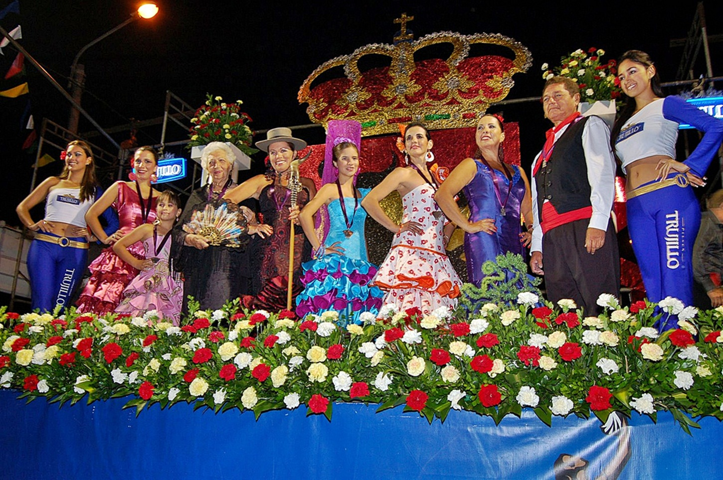 Feria De San José en el balneario Las Delicias de Moche